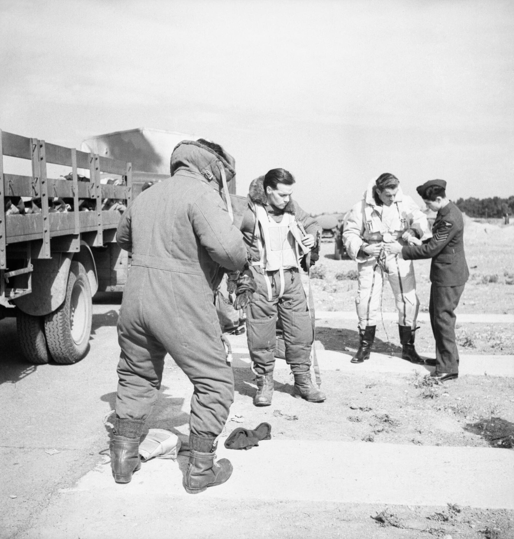 The crew of a Boeing Fortress Mk I of No. 90 Squadron RAF putting on electrically-heated flying suits at Polebrook, Northamptonshire, before taking off for a high-altitude bombing attack on the German battlecruiser GNEISENAU at Brest, France.